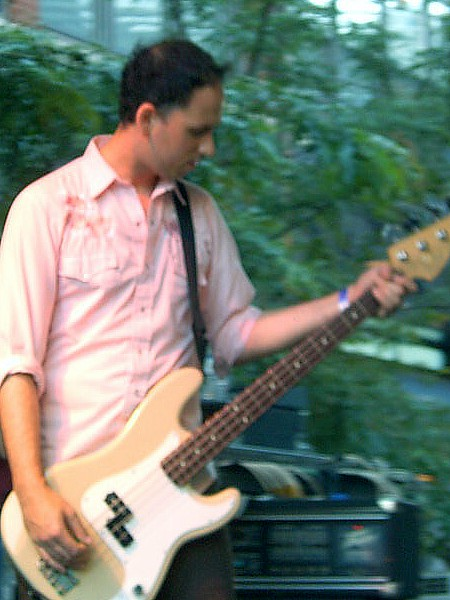 Bobby Burg